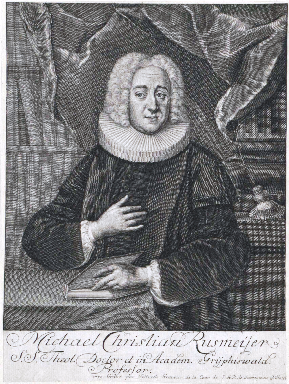 Michael Christian Rusmeyer (1686–1745)